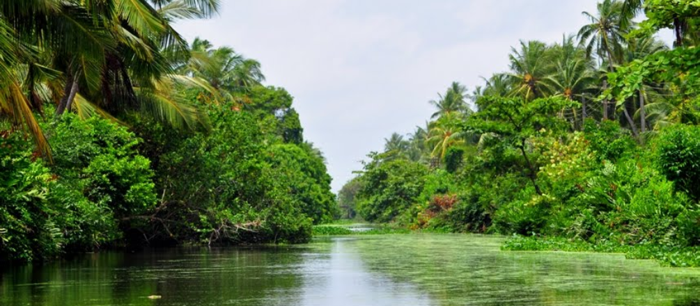 Seeduwa is surrounded from Dandugam Oya